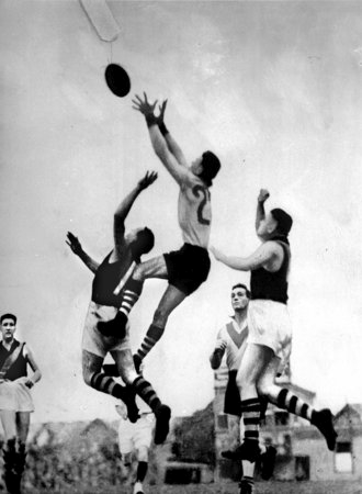 An image of Bob Pratt; This image shows a photograph of Bob Pratt, taken at the Lakeside Oval on 9 June 1934, in a match between South Melbourne and Richmond . Pratt is about to take a high mark over the Richmond (back-pocket resting) first first-ruck Bert Foster (11), and in front of the Richmond full-back Maurie Sheahan (4). Captioned As { }